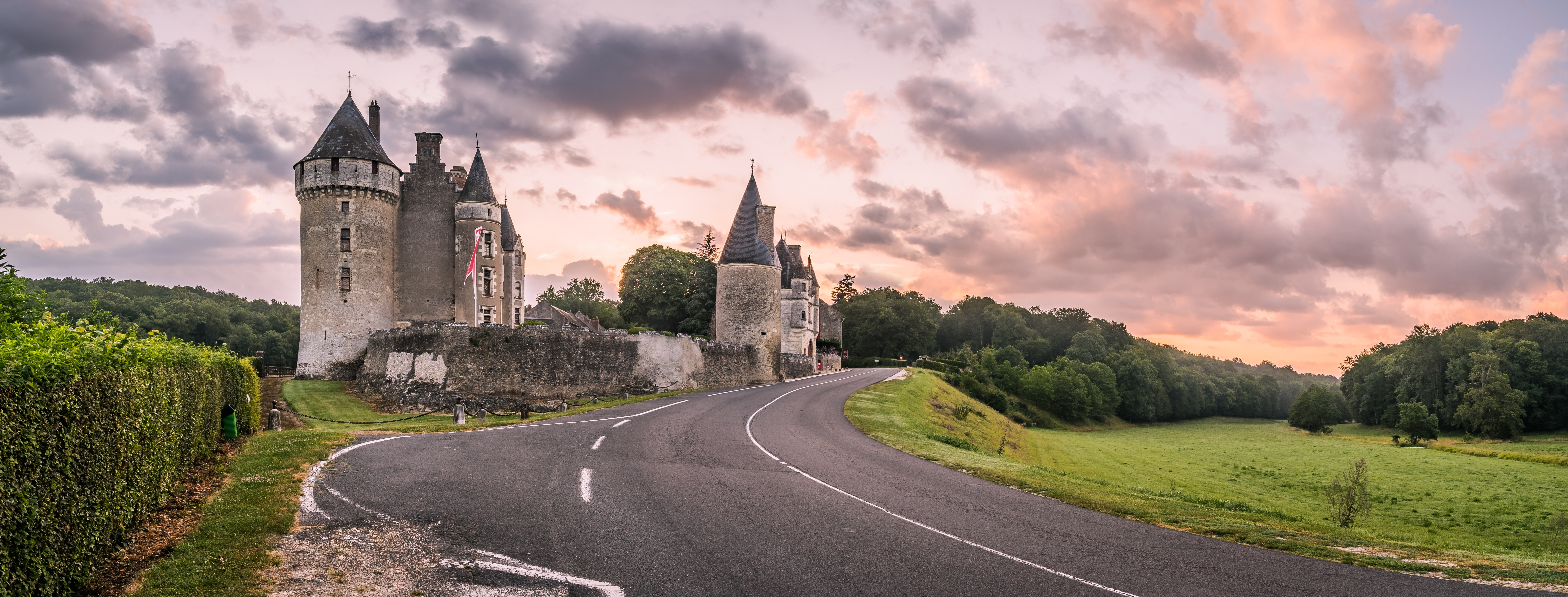 Castle of Montpoupon in commune of Céré-la-Ronde, Indre-et-Loire, France .